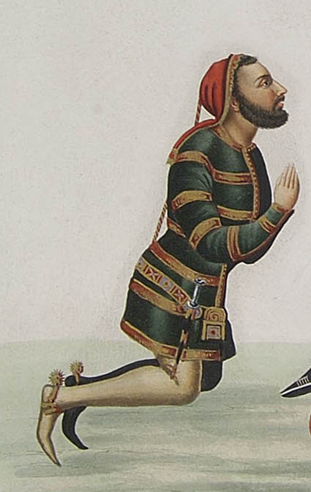 Mastino II della Scala